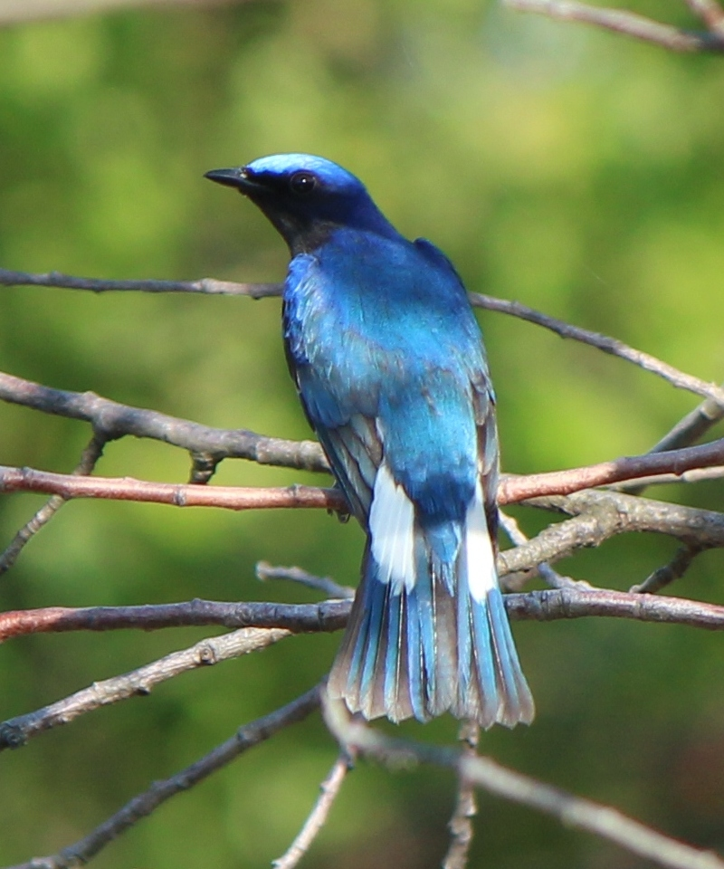 Blue-and-white Flycatcher (Cyanoptila cyanomelana), male in Japan.